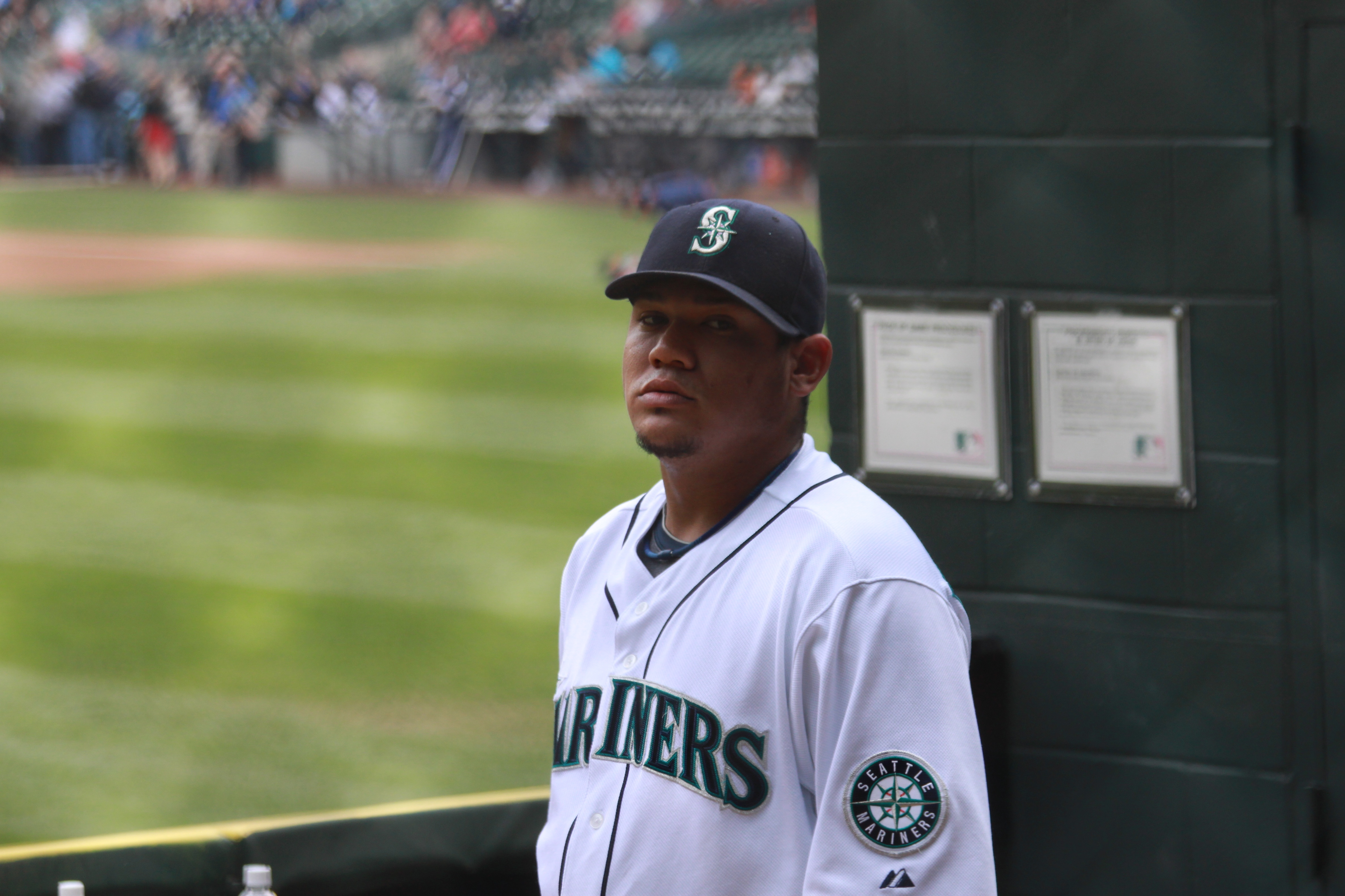 King Felix is ready